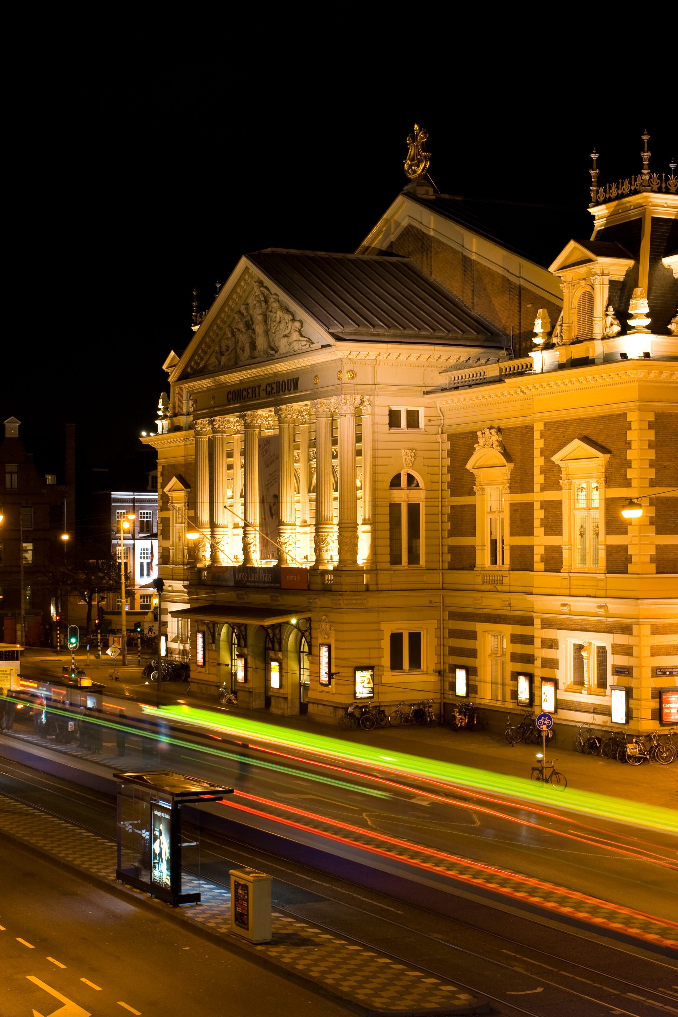 The facade of the world famous Concertgebouw in Amsterdam, the Netherlands at night.